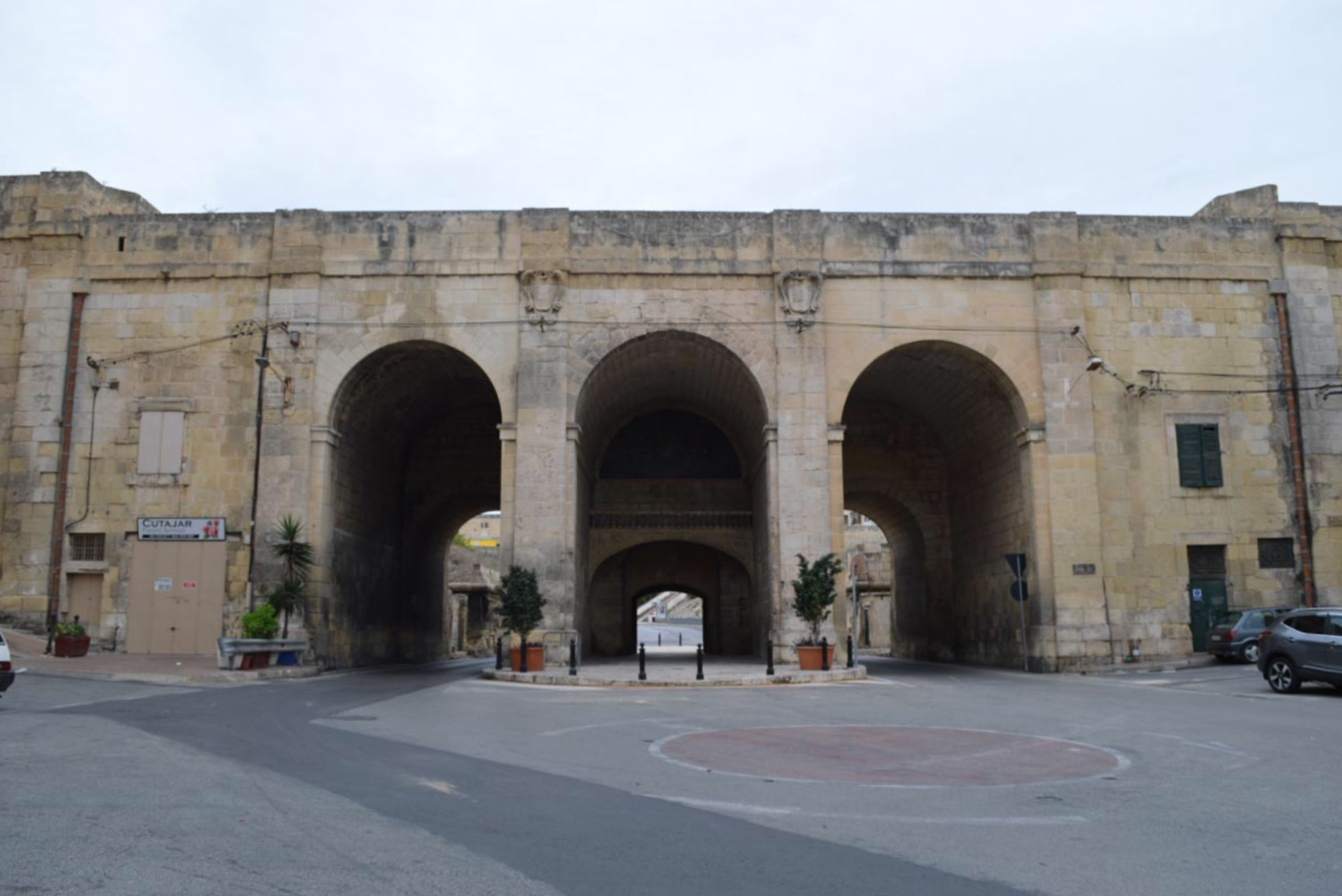 St Helen Gate - Sta Margherita Lines This media is about Maltese cultural property with inventory number 01541.